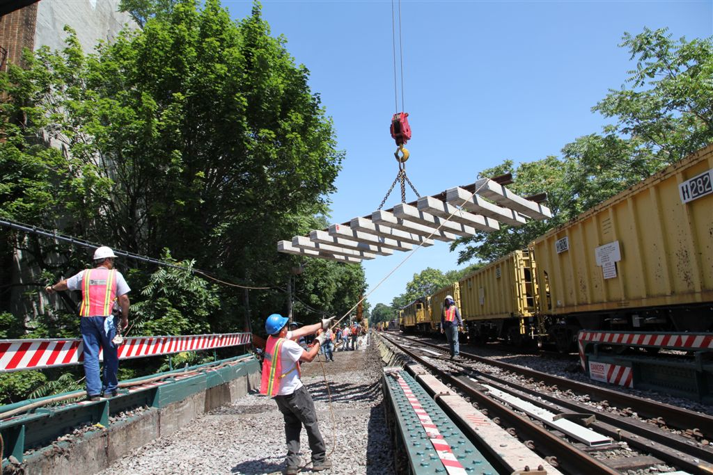 This weekend, we replaced sections of track on the B & Q Line in Brooklyn. This photo shows a panel being guided by workers using tag lines. Photo: Metropolitan Transportation Authority / Leonard Wiggins.